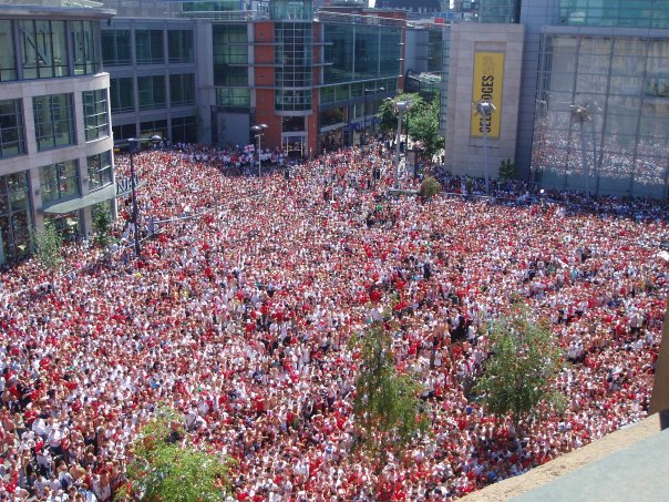 Manchester BBC big screen in Exchange Square during the 2006 FIFA World Cup game between England and Paraguay.